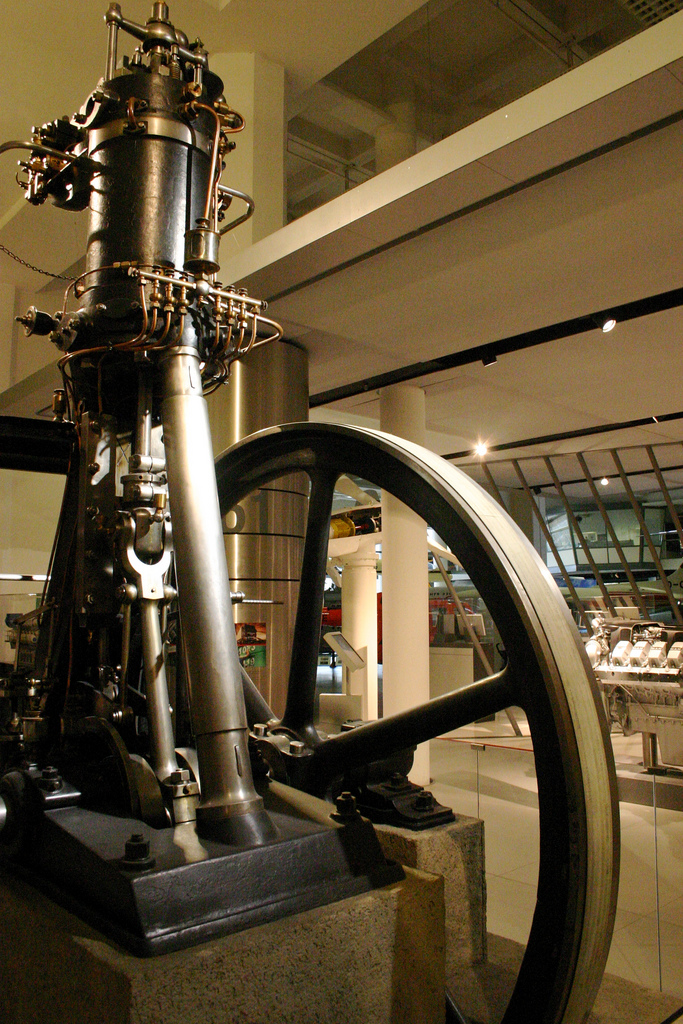 This machine by Rudolf Diesel was built in 1897 and is considered to be the first diesel engine.